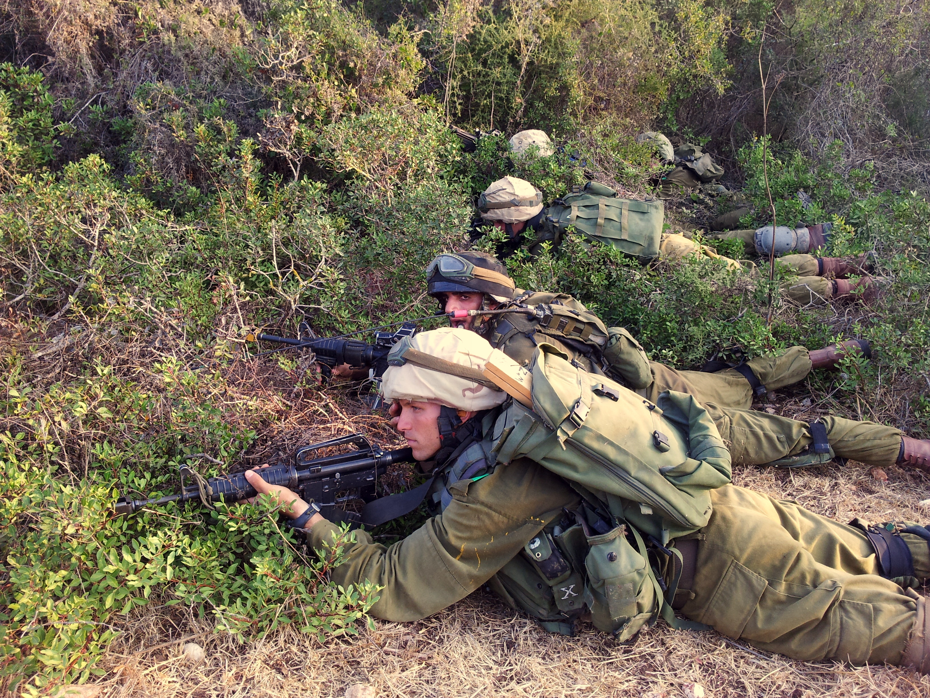 Future IDF commanders practice infantry maneuvers in thickets that resemble those found in Lebanon -- lots of trees, plants and shrubbery. The Israel Defense Forces Facebook • blog • Twitter